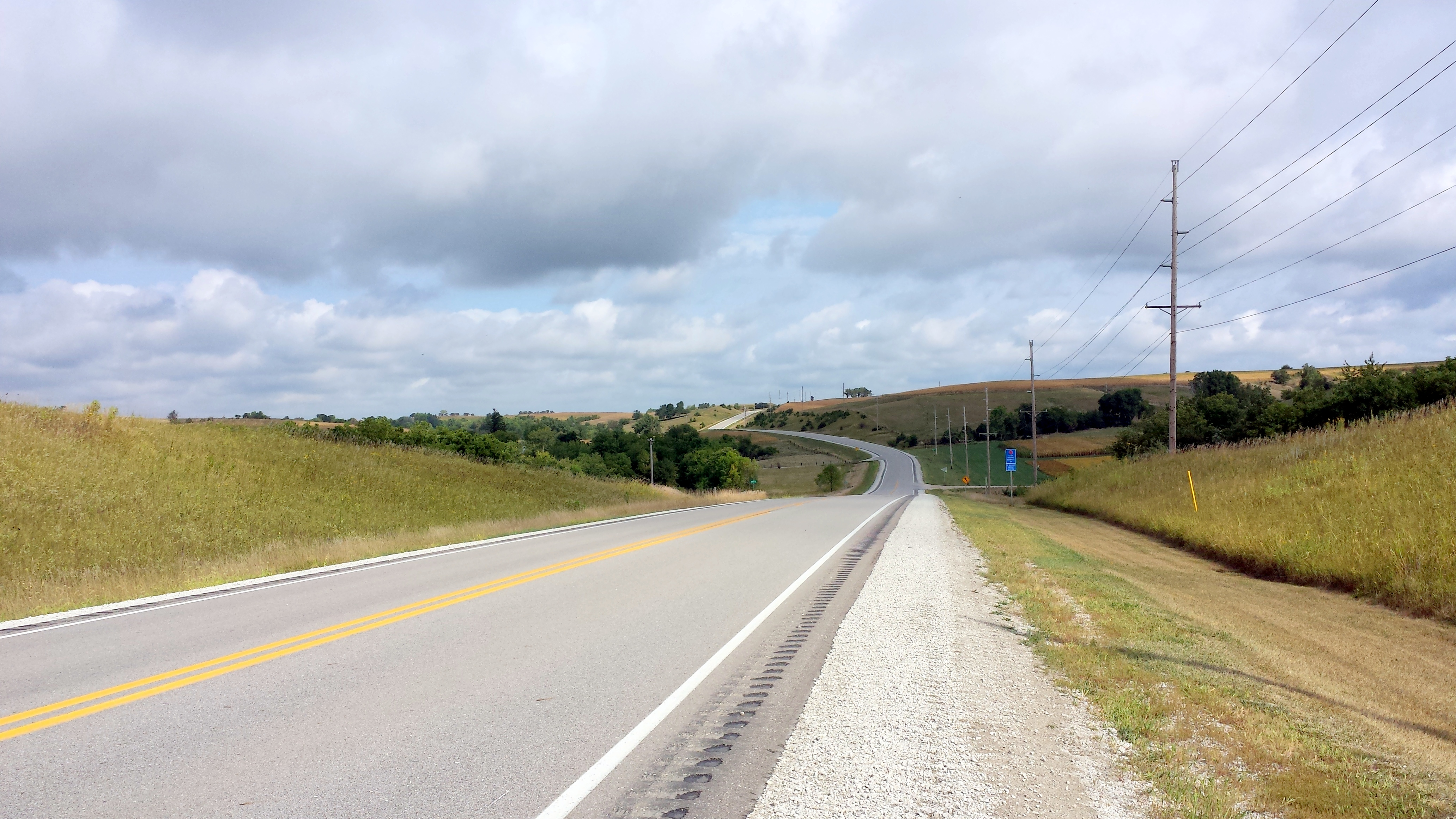 Iowa Highway 25 south of Guthrie Center. Who says Iowa is flat?